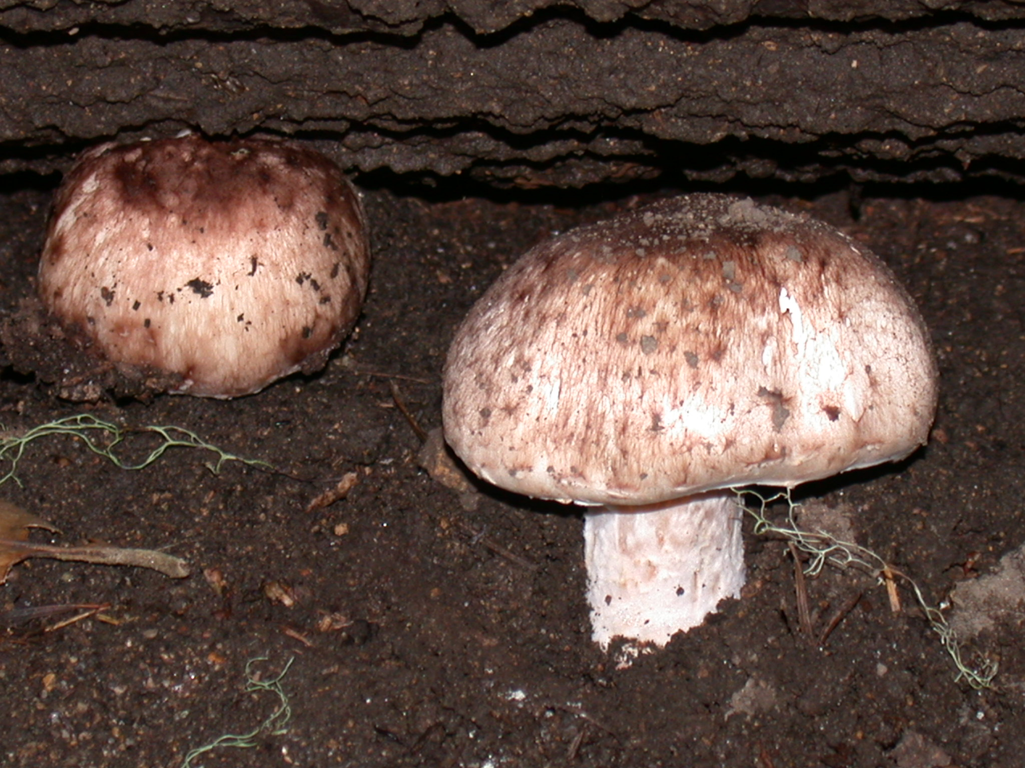 Agaricus subrutilescens. Photo taken 12/28/2006 by Darvin DeShazer at Point Reyes National Seashore, California. From